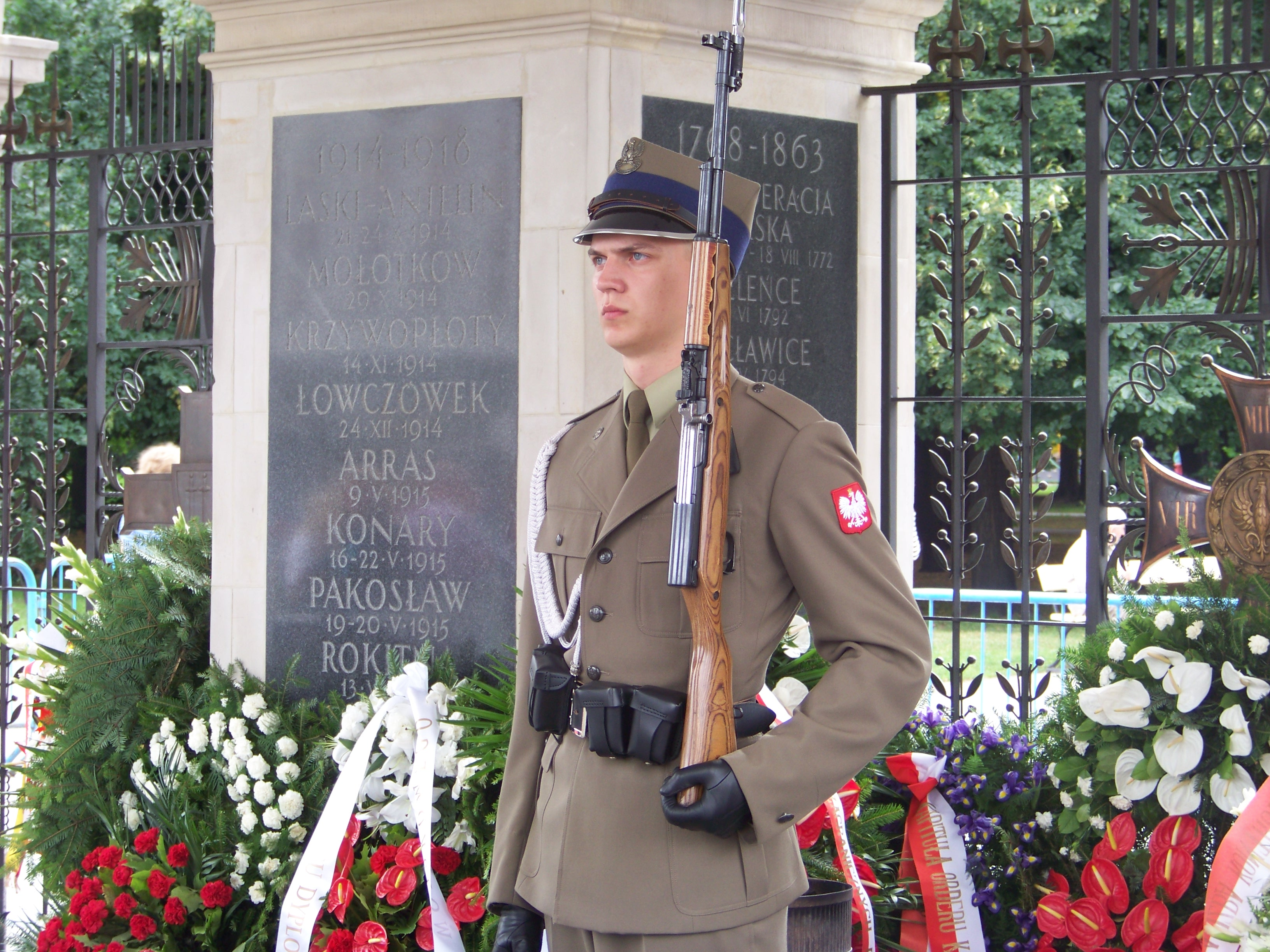 Grób nieznanego zołnierza